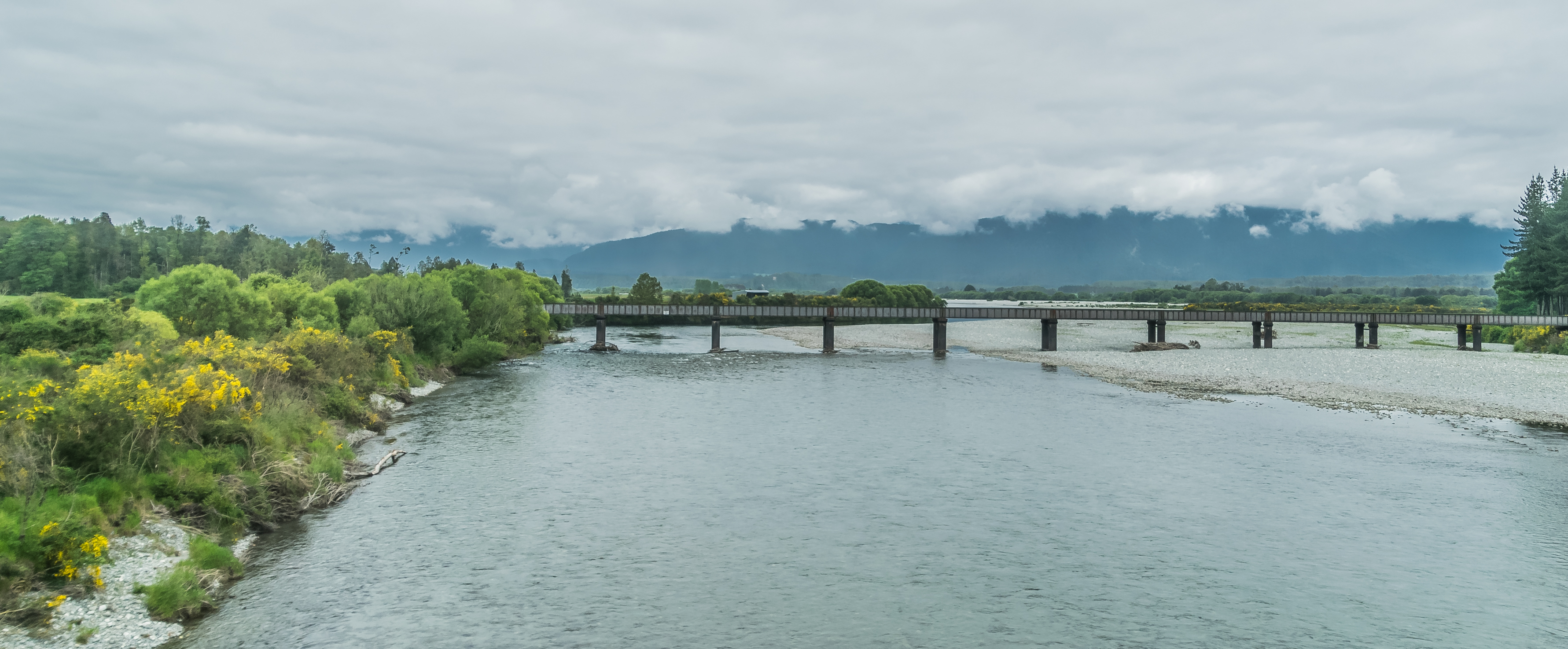 Ahaura River in Ahaura, West Coast Region, New Zealand